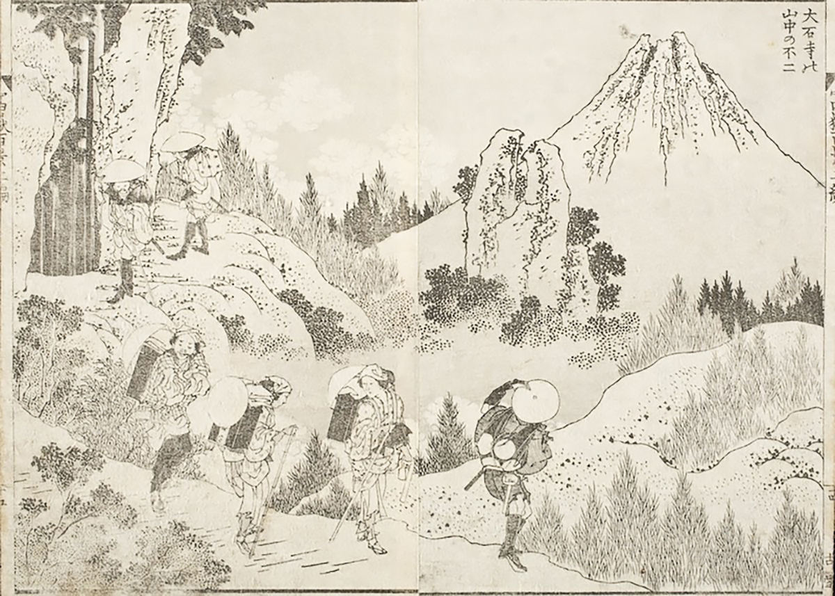 circa 1834 Series: One Hundred Views of Mt. Fuji Volume, number, page: vol. II, image 49 Prints; woodcuts Black and white woodblock prints, two pages from an illustrated book Image: 7 1/4 x 9 7/8 in. (18.42 x 25.08 cm); Sheet: 8 7/8 x 10 1/4 in. (22.54 x 26.04 cm) The Joan Elizabeth Tanney Bequest (M.2006.136.141a-b) Japanese Art